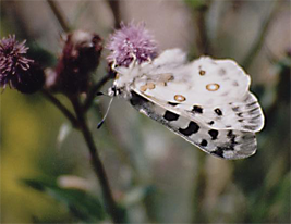 Apollo butterfly. Picture taken in Finland.